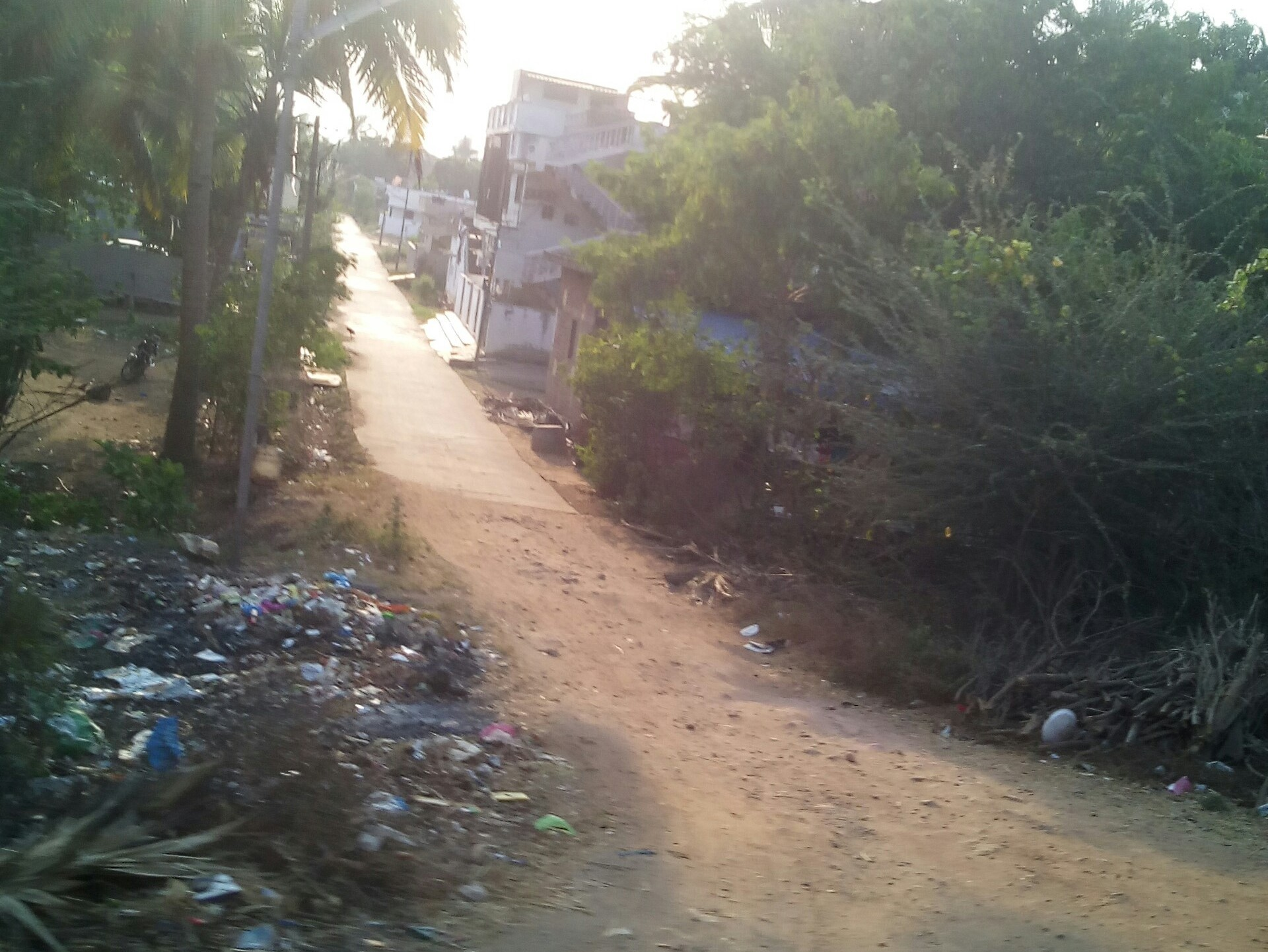 A minor road in Duggirala